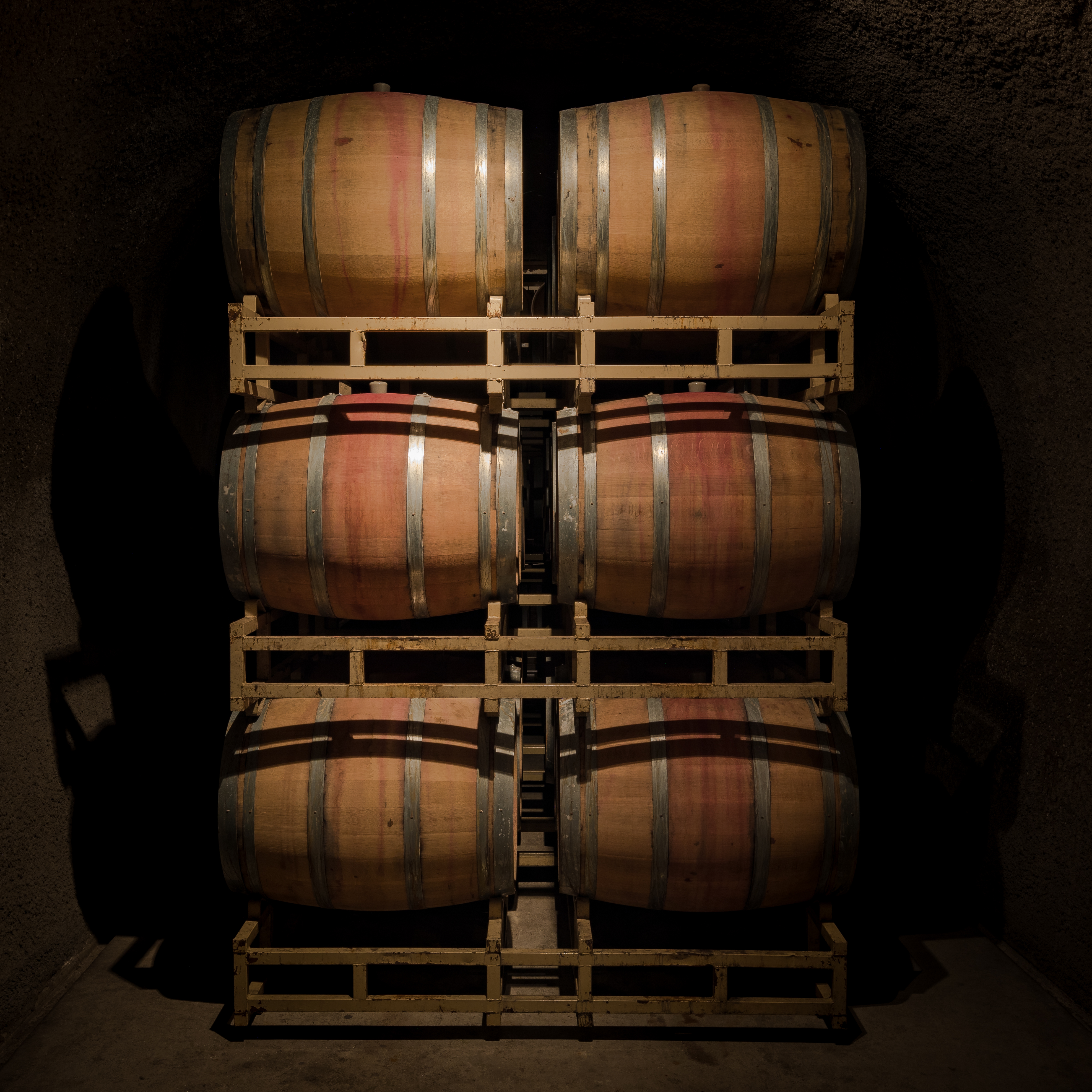 Oak barrels in the wine cave of Rutherford Hill Winery in Napa County, California. The “red band” on some wine barrels is the residue of spilt red wine.